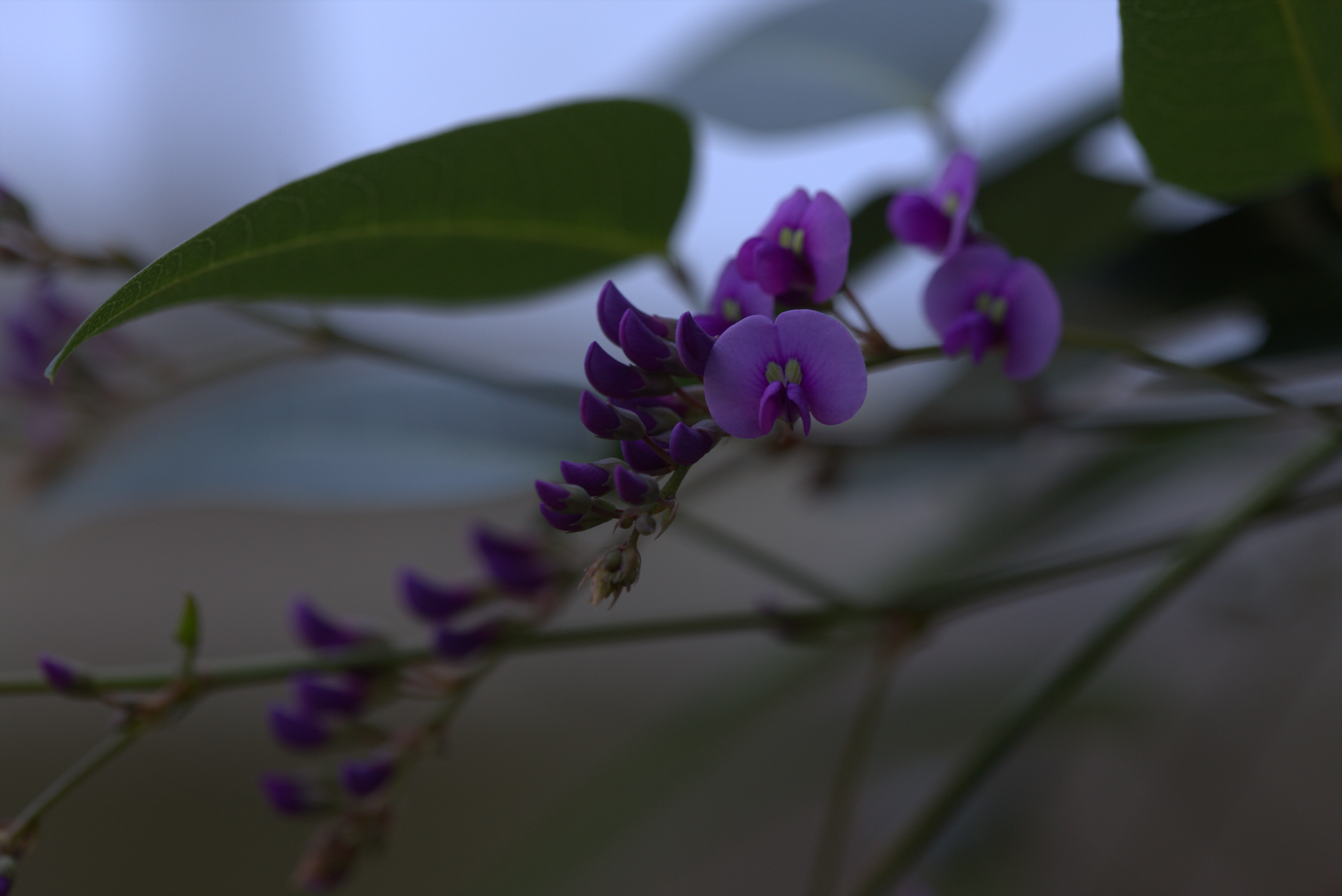 Hardenbergia comptoniana at Gothenburg Botanical Garden in 2015. Plant id: 2004-2681 p G